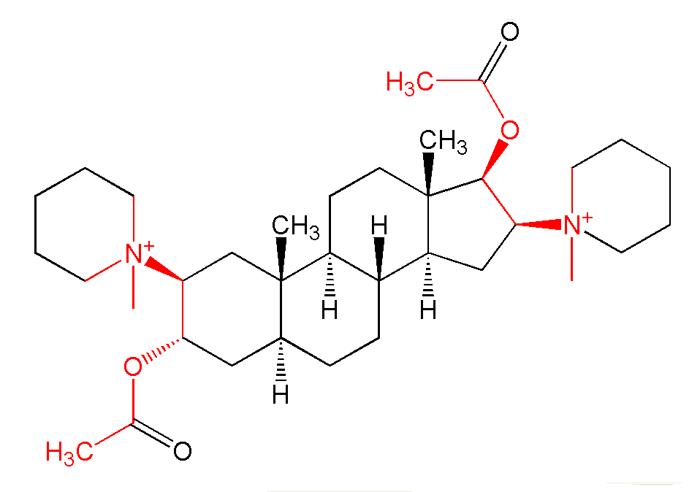 Chemical diagram of pancuronium, with red lines indicating atoms of its structure correlating to acetylcholine. Image drawn by Dr. Cash using ChemDraw Ultra 7.0 on September 29, 2007.